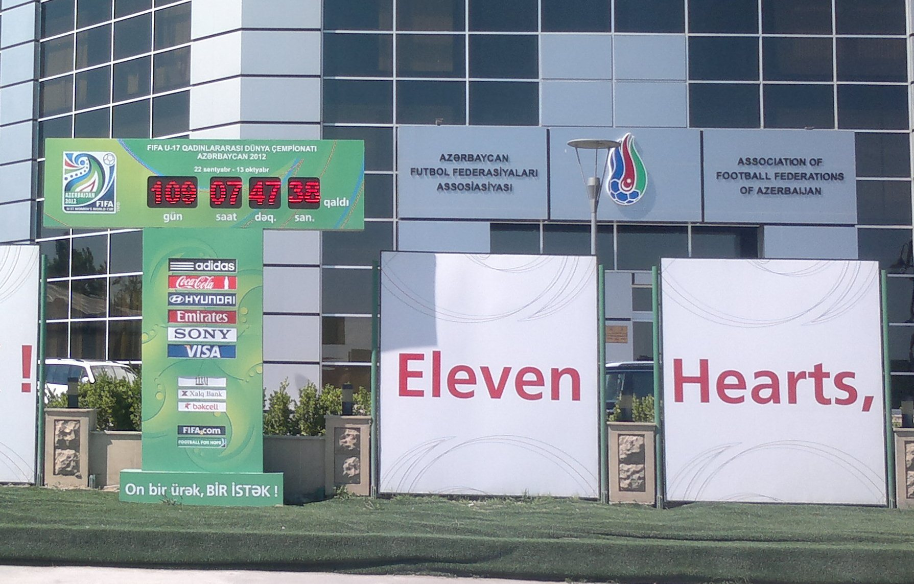 Clock in Baku, Nobel Prospect, Azerbaijan showing time to start of FIFA U-17 Women's World Cup Azerbaijan 2012. Building of AFFA (Association of Football Federations of Azerbaijan) in background.